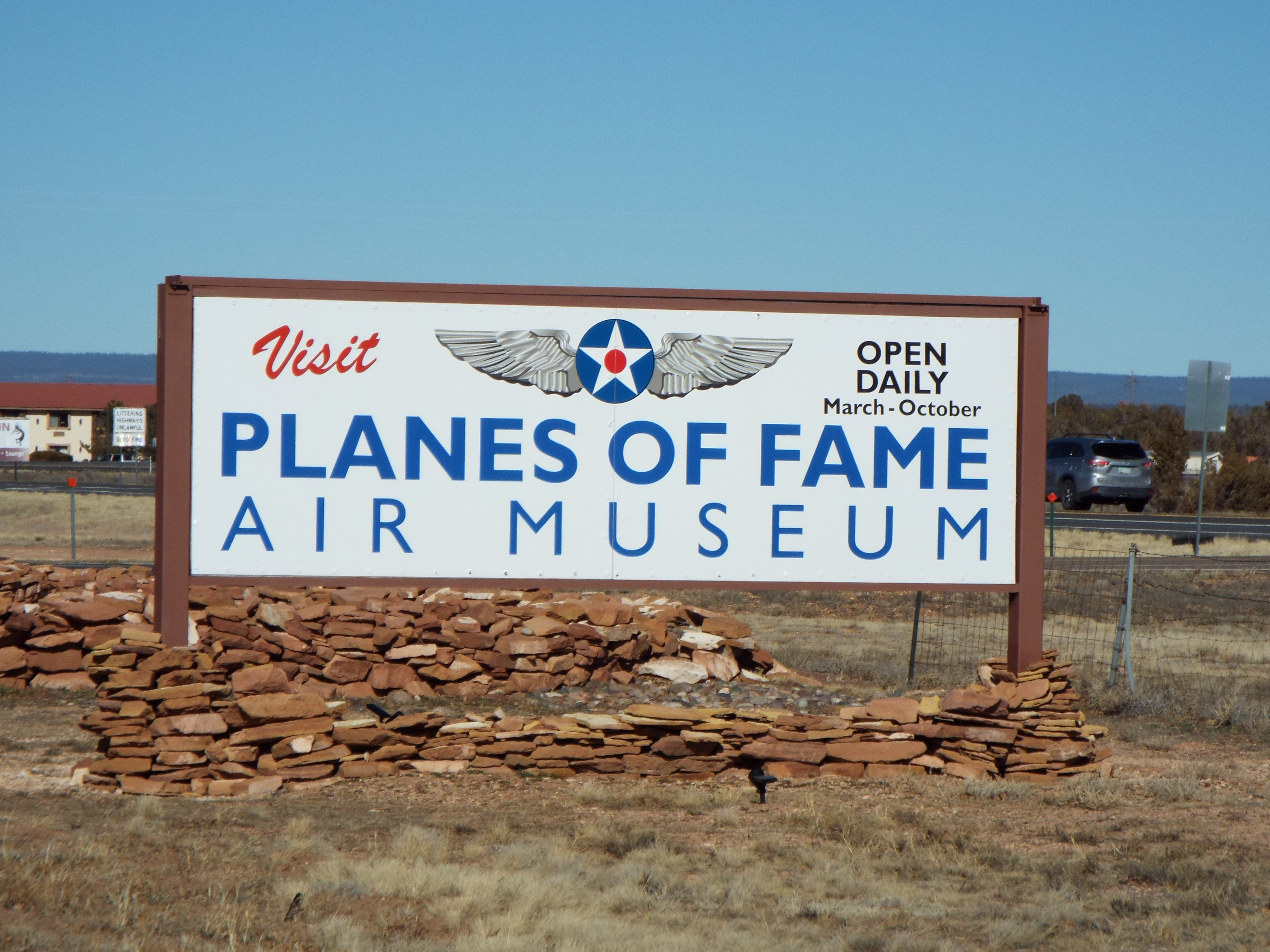 The Planes of Fame Air Museum was established in 1995, in the town of Valle, Arizona. It has more than 40 restored aircraft; many are still flyable. They are displayed in both an enclosed and outside hangar.